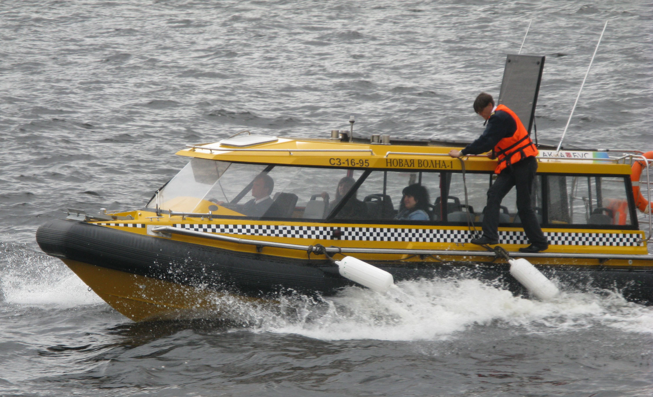 A boat Hitek 85C in Saint-Petersburg (Aquabus)